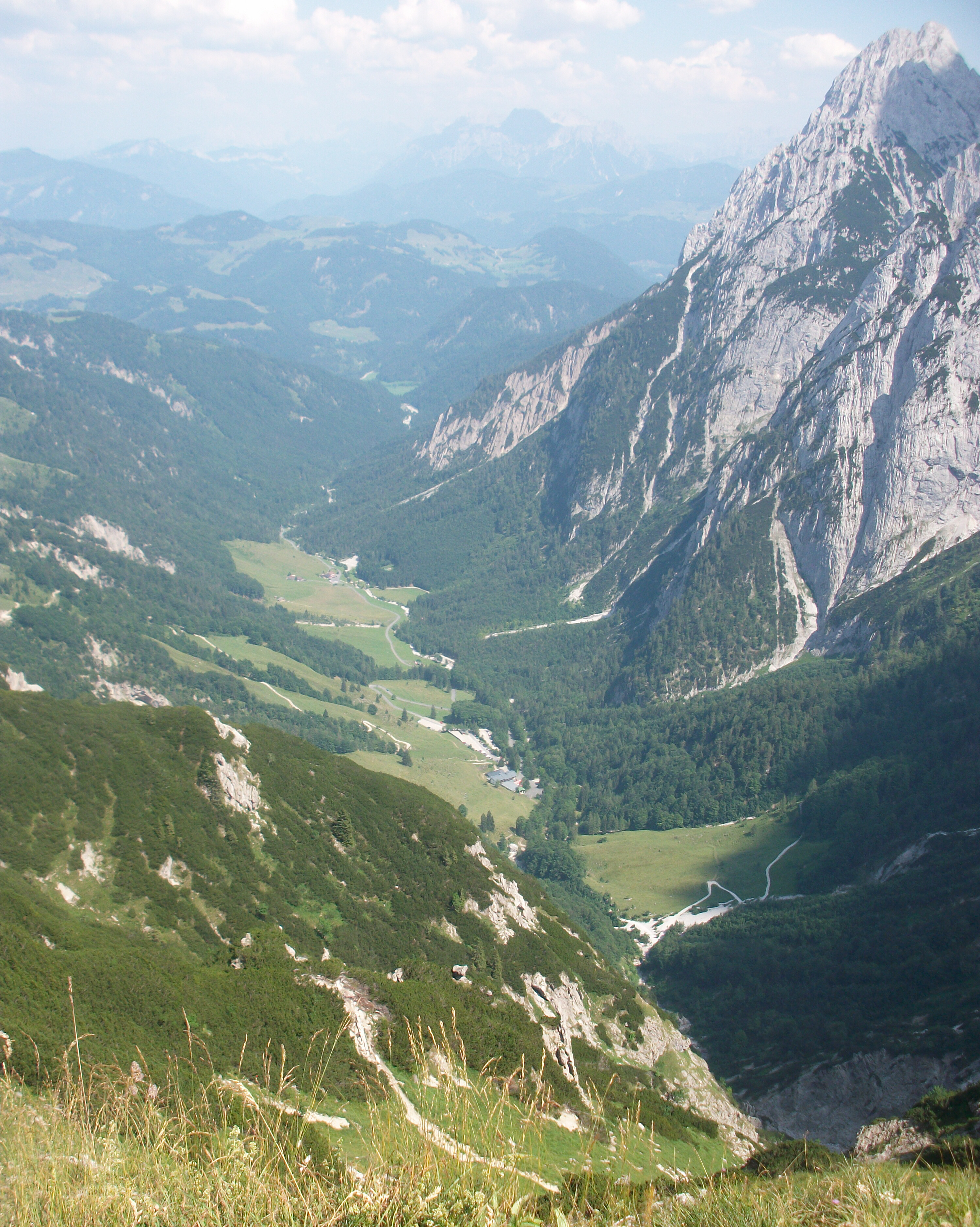 Kaiserbachtal seen from Stripsenkopf